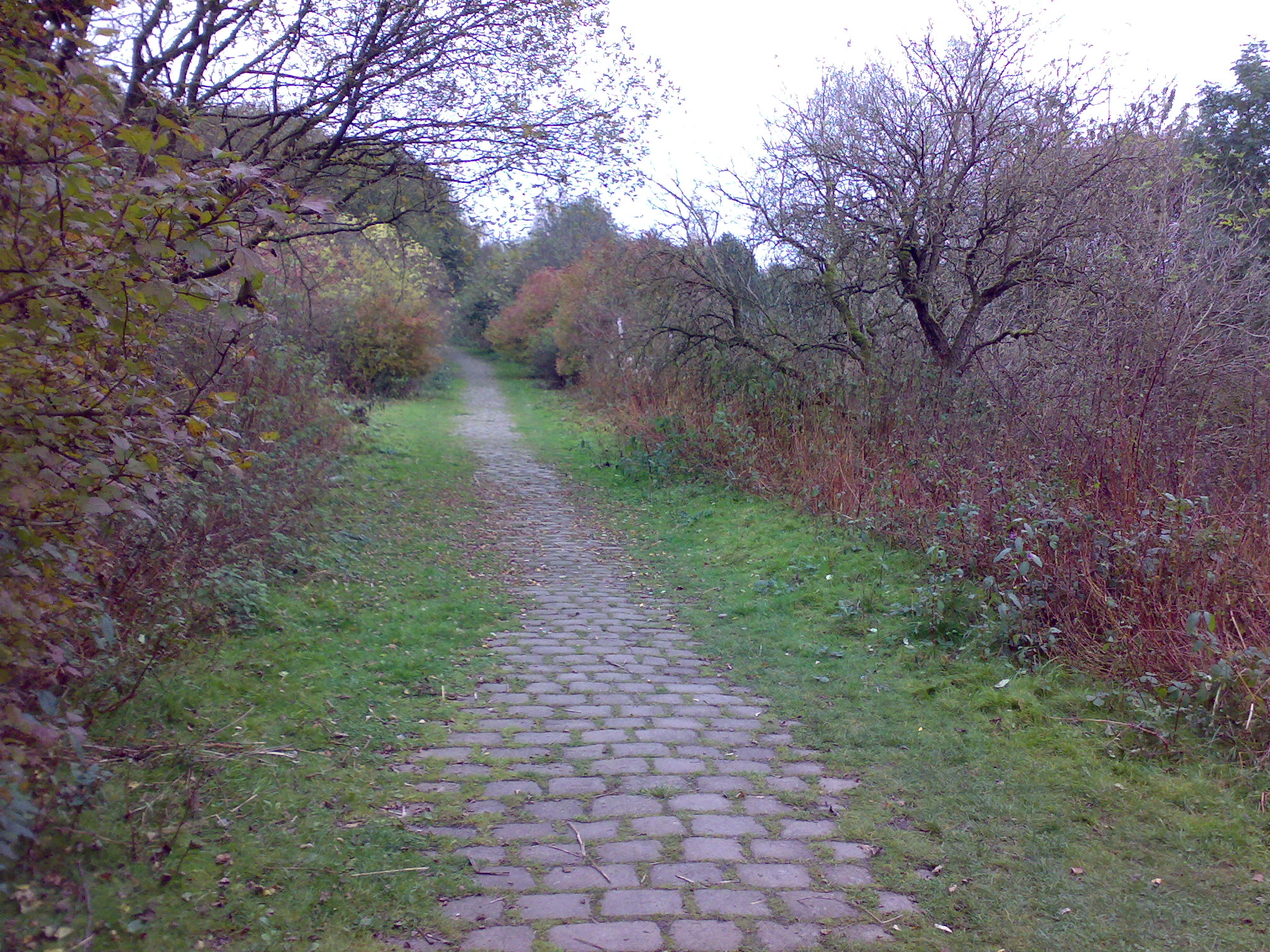 The cobbled road used to access Lever Bank Bleach Works, looking downhill northeast